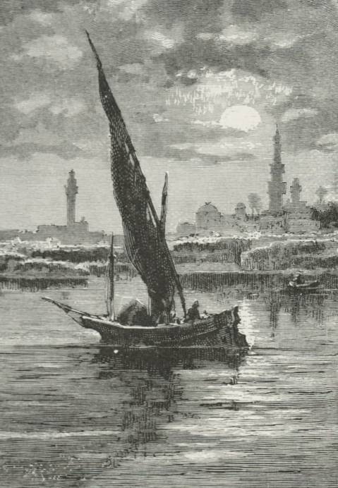 FOOA. A small sailboat.